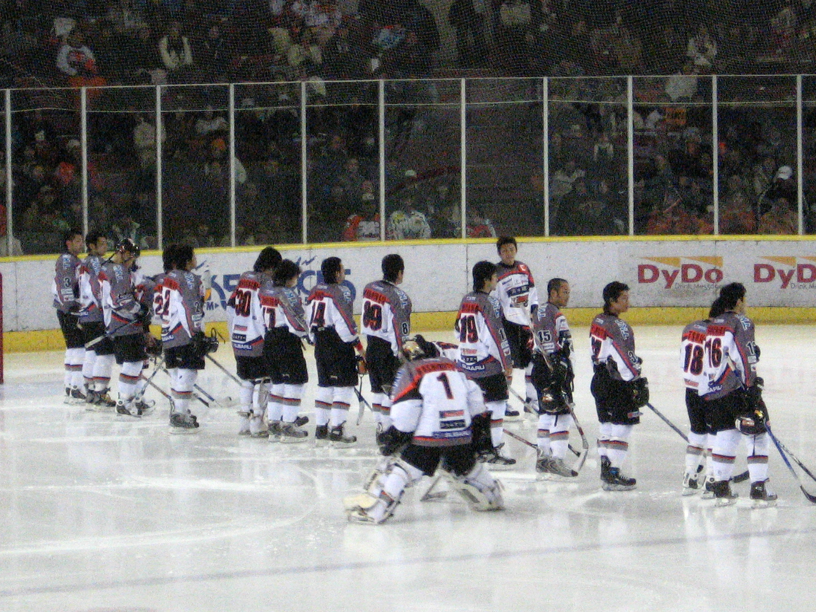 Nikko Icebacks to Japanese Ice Hockey Teams.